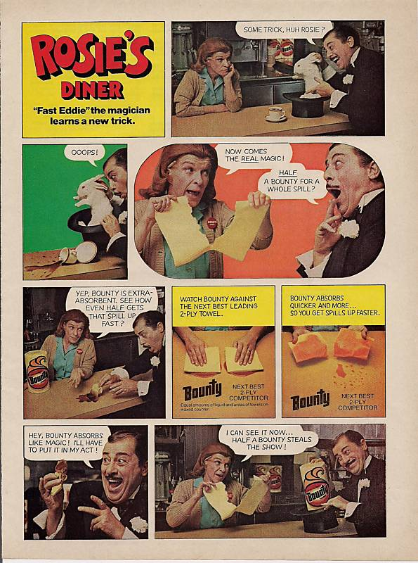 Copy of an ad for Bounty paper towels featuring Nancy Walker as "Rosie". Walker played the mythical spokeswoman for the towels in television ads also from 1970 to 1990.